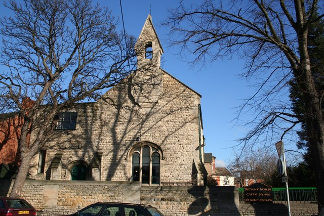 Belvoir House Care Home, Grantham, Lincolnshire: in a building with a bellcote and datestone of 1863.